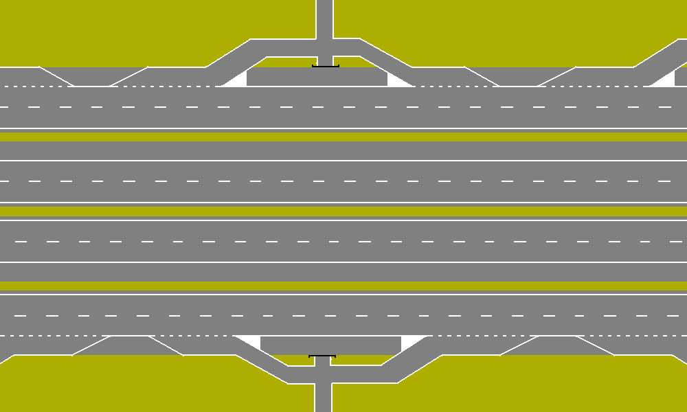 Simplified drawing of a through motorway with parallel lanes for local traffic